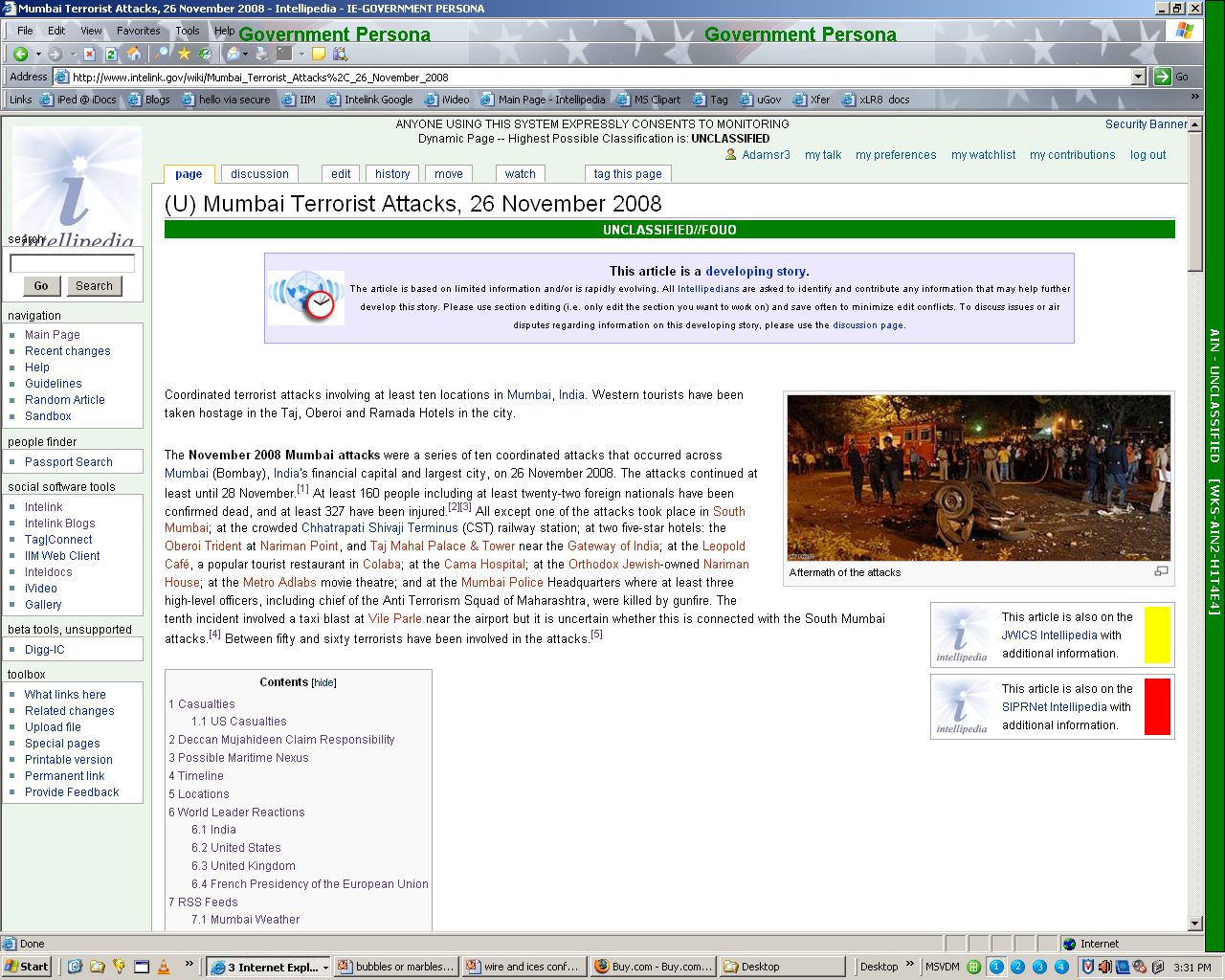 Sample screenshot of Intellipedia interface